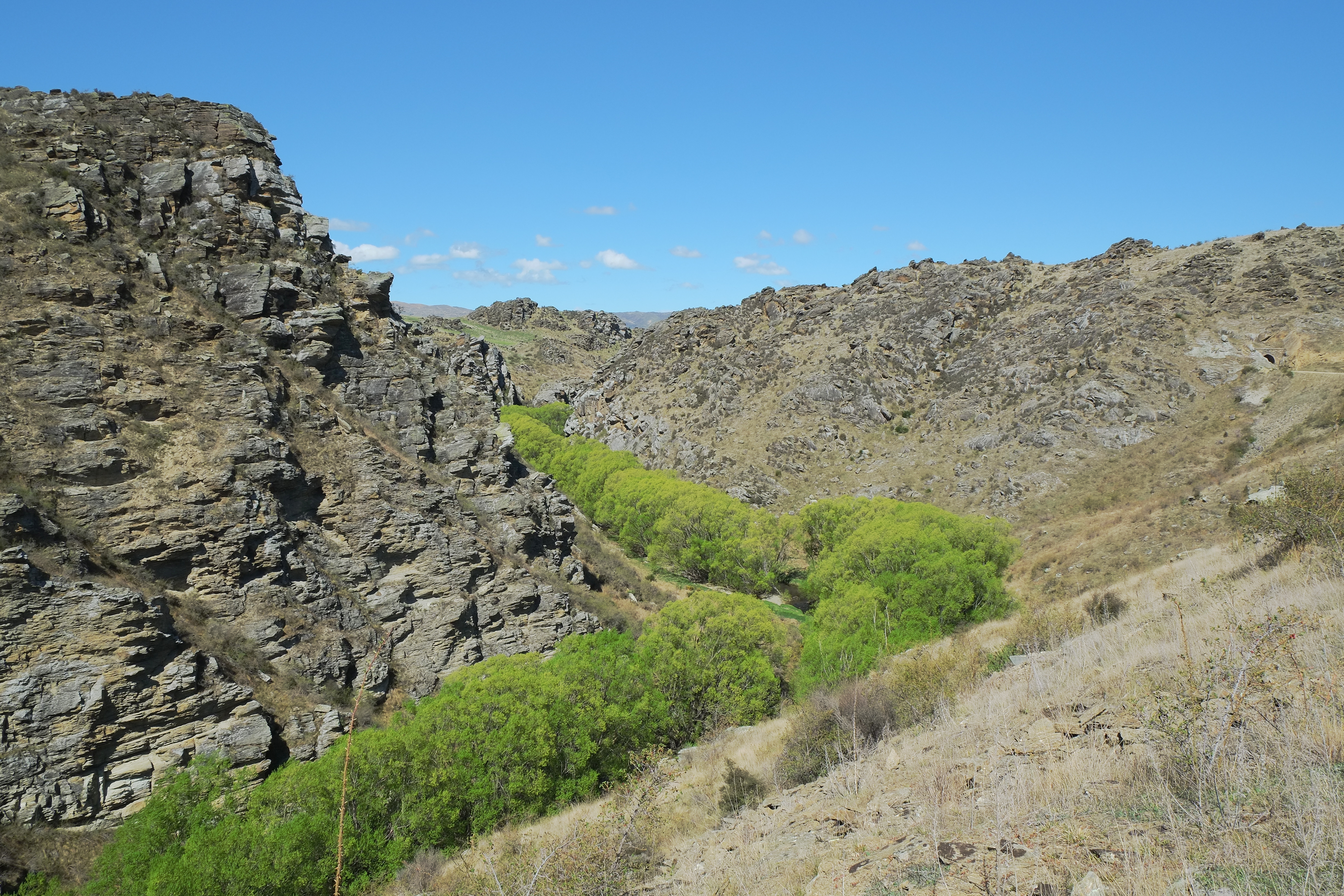 View up Poolburn Gorge (one of the tunnels on the Otago Central Rail Trail visible on the far right)